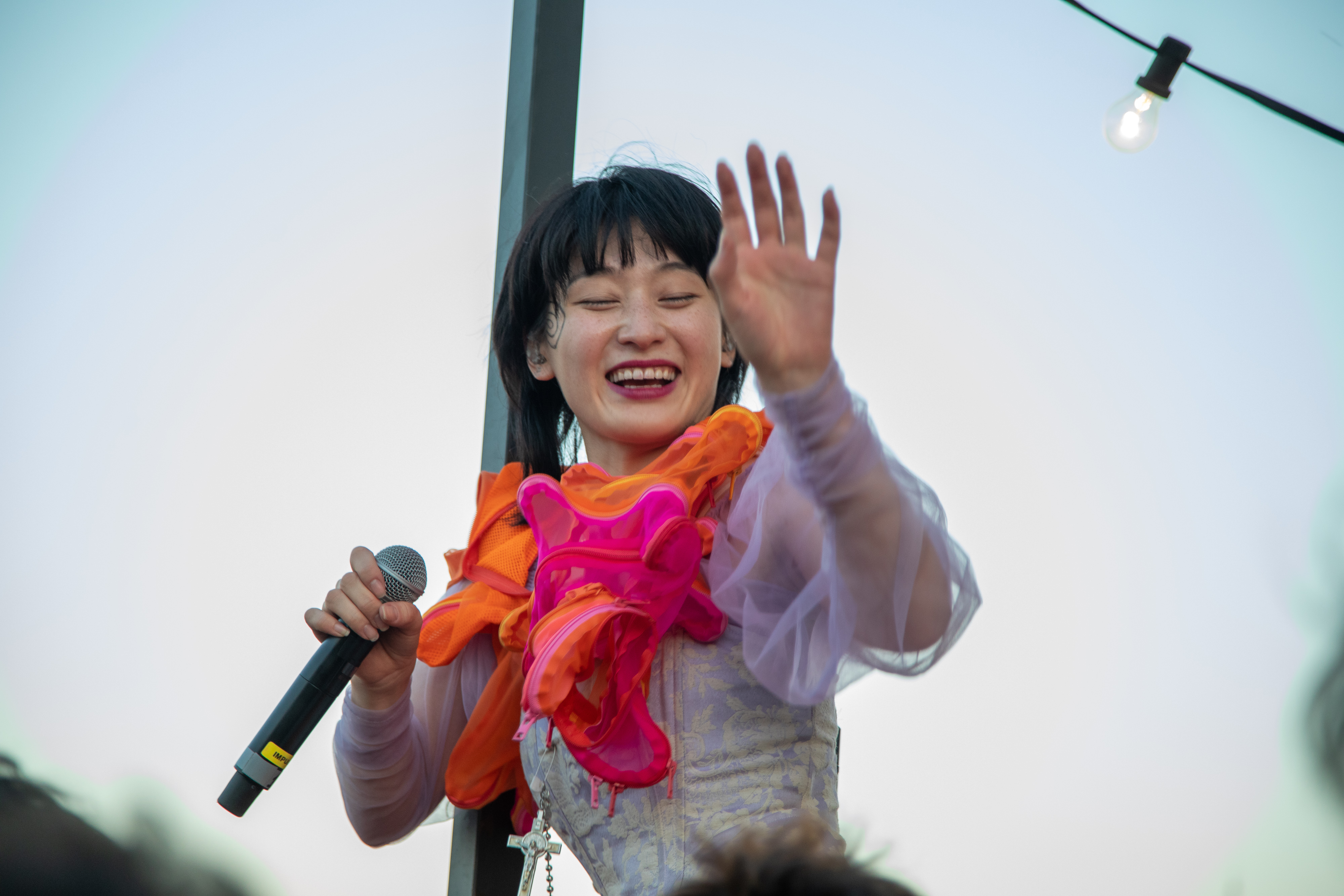 Wednesday Campanella performing at Primavera Sound 2019.